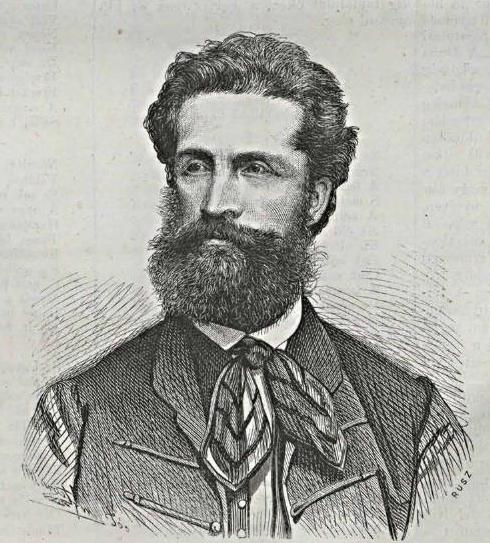 Portrait of Gyula Greguss